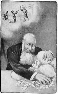 A caricature of Leopold II with his private earnings from the Congo Free State. Original caption: "My yearly income from the Congo is millions of guineas"